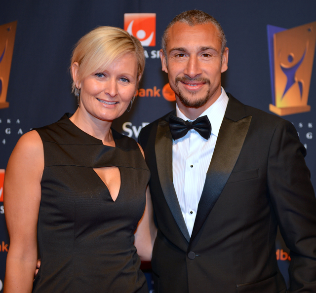 Magdalena and Henrik Larsson at the Swedish Sports Gala at the Ericsson Globe in Stockholm, January13, 2014.